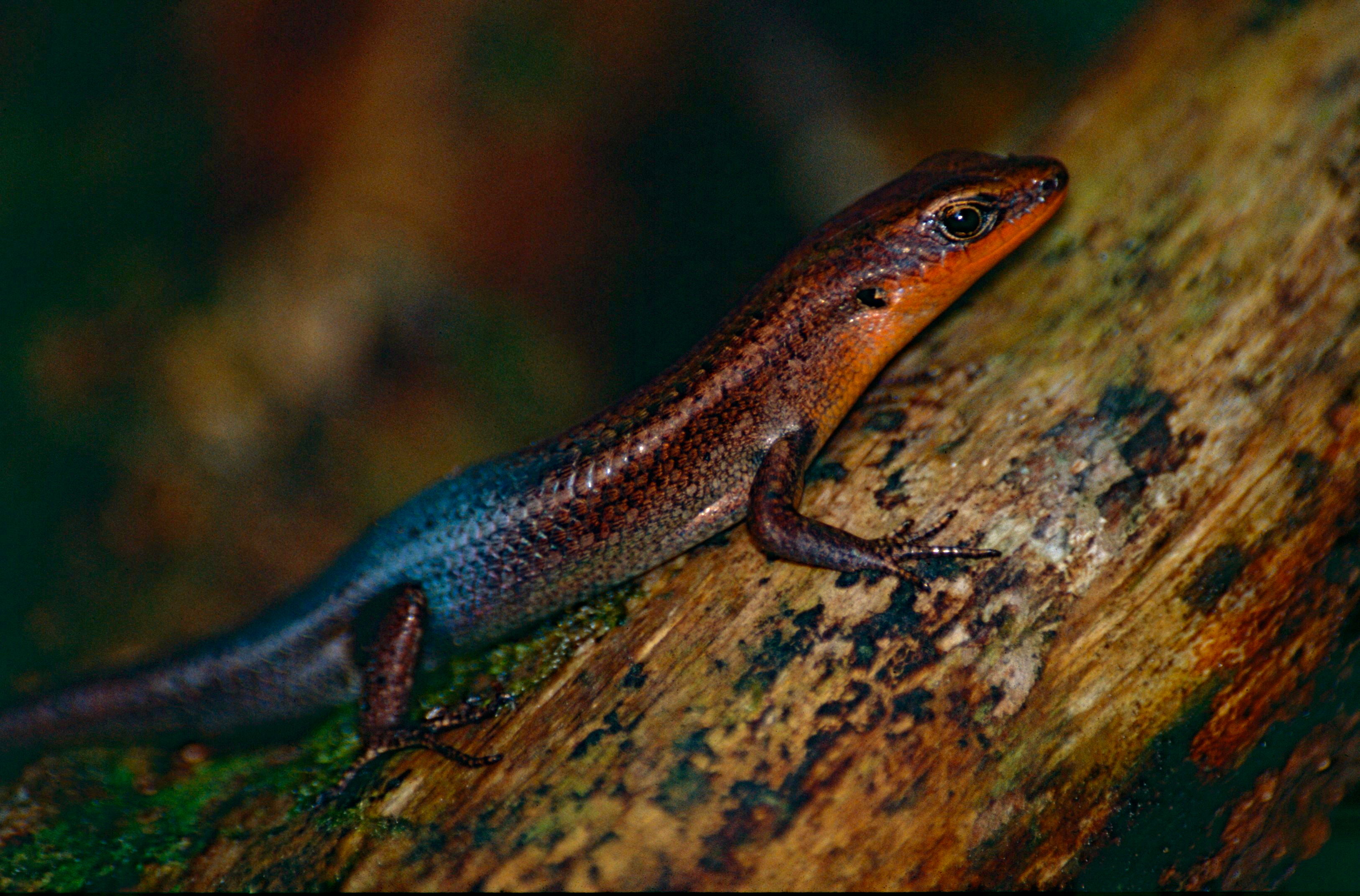 Lync Haven, Cape Tribulation, North Queensland, AUSTRALIA Scanned Slide from Nov 2000